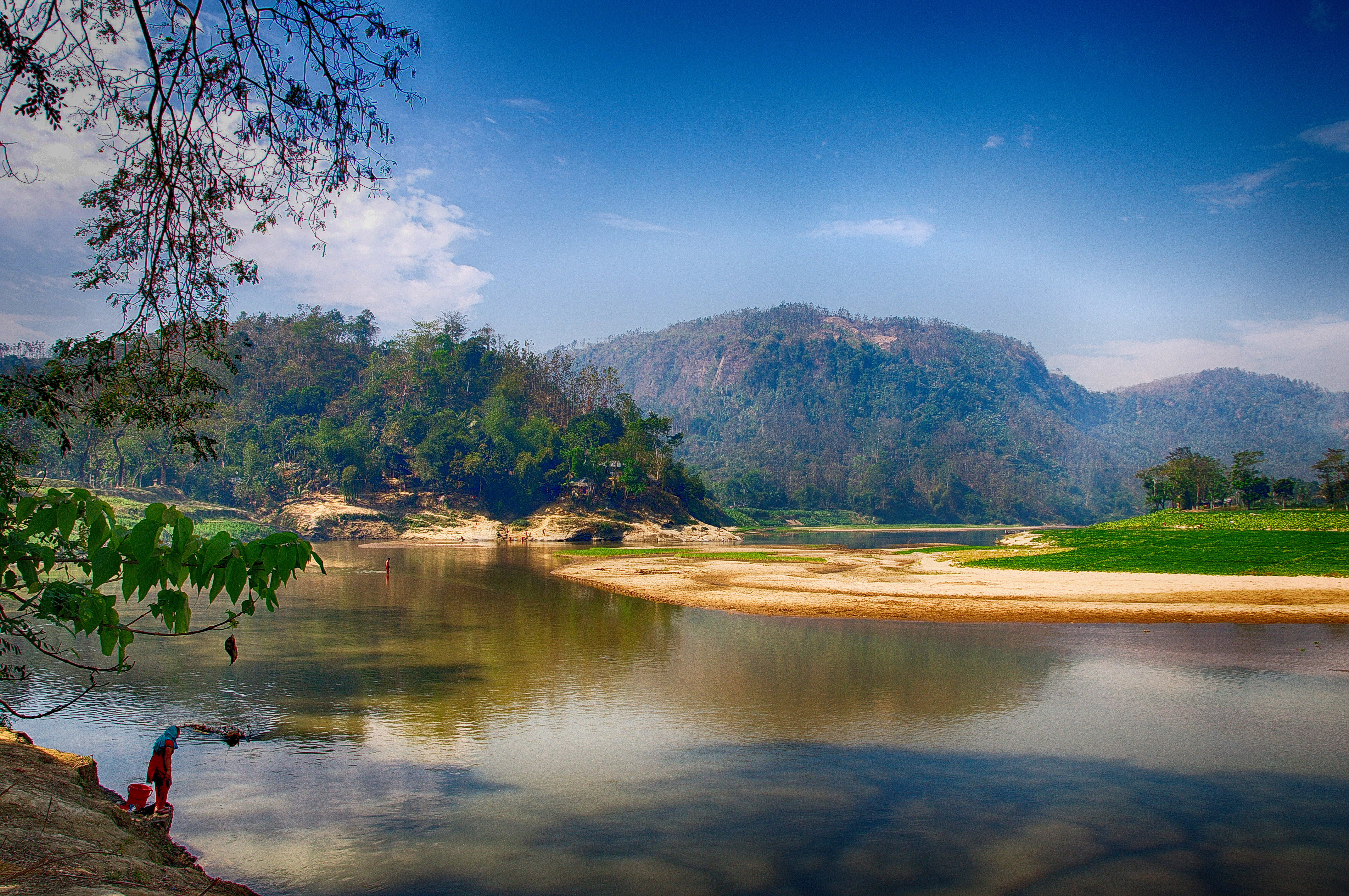 Landscape of Lama, Bandarban